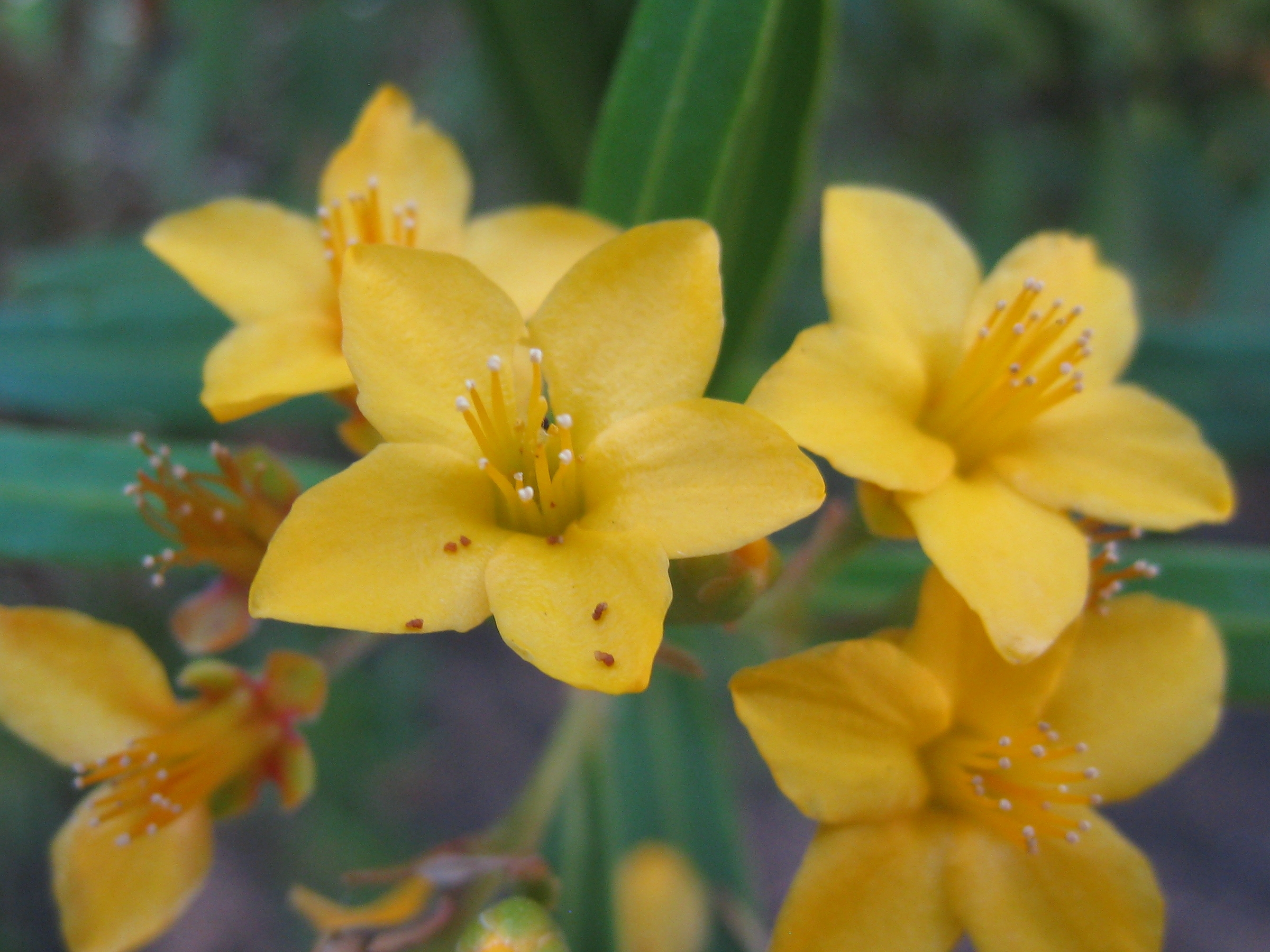 Found growing along creeks around Sydney. Water gum, Tristania neriifolia. Heathcote National Park, NSW Australia, January 2011.